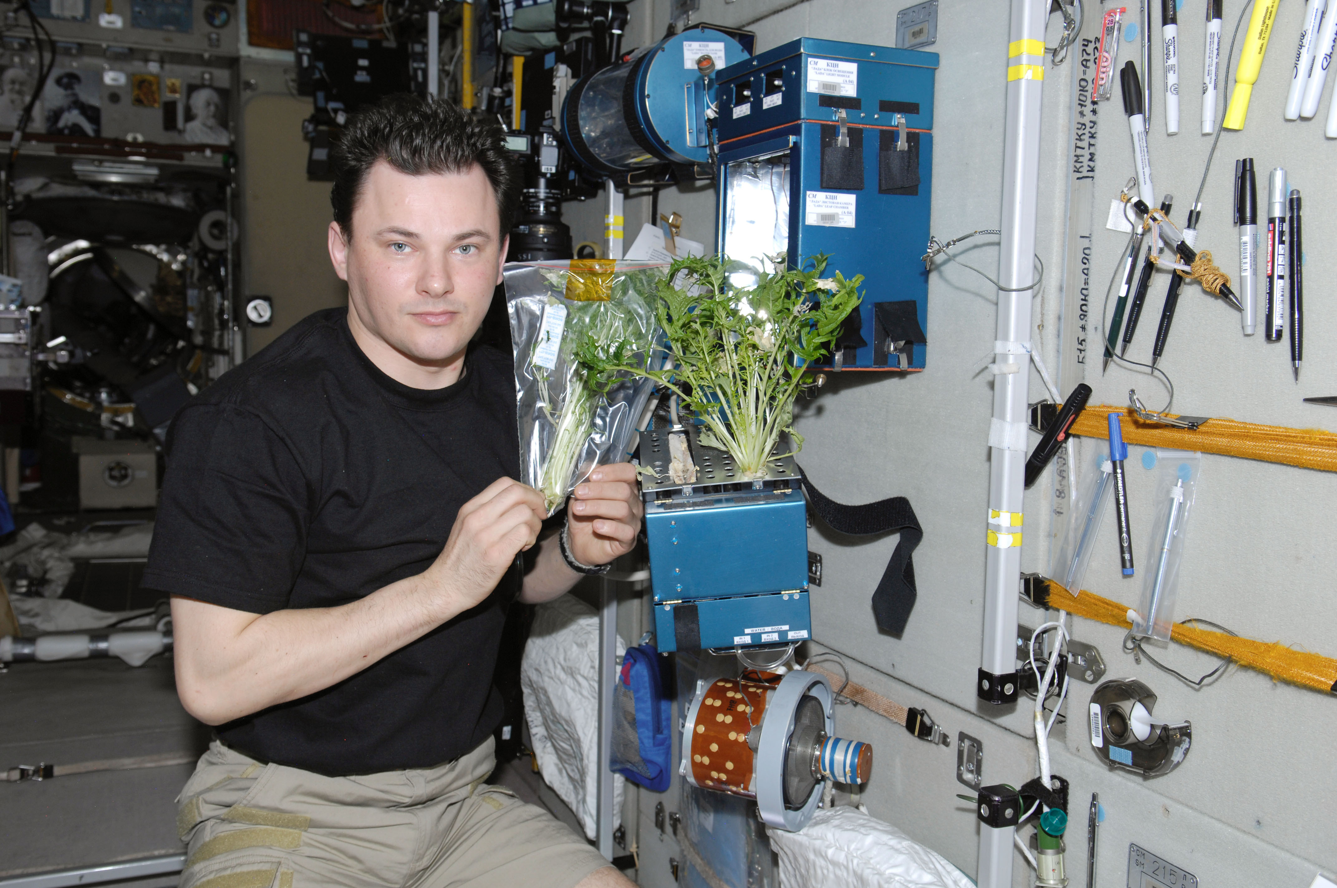 Russian cosmonaut Roman Romanenko, Expedition 21 flight engineer, poses for a photo with the current growth experiment on the BIO-5 Rasteniya-2 (Plants-2) payload in the Zvezda Service Module of the International Space Station.